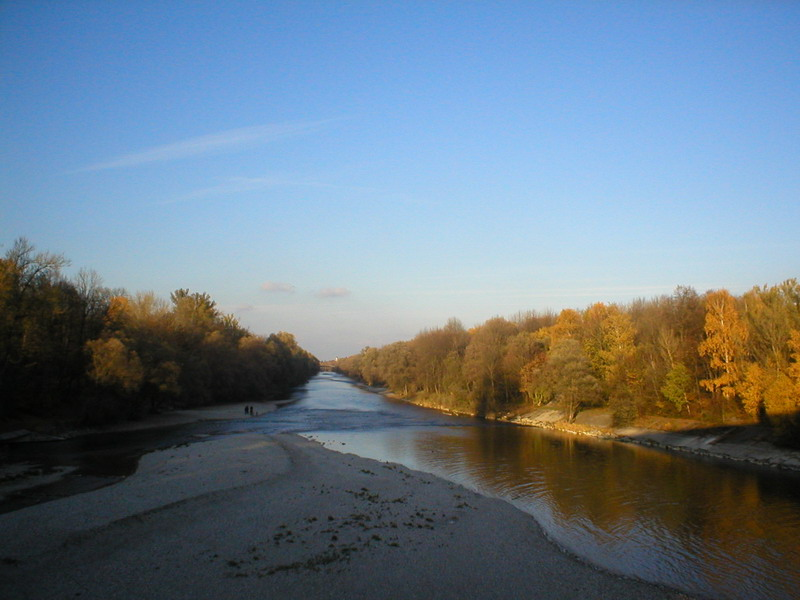 Isar River in the north of Munich in Autumn